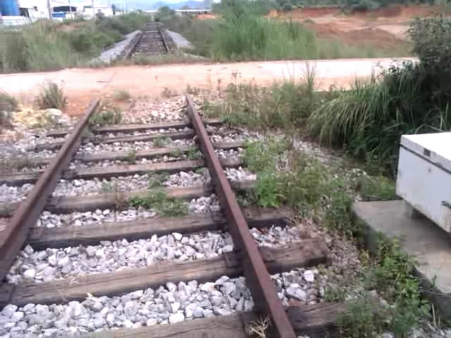 A kangaroo railway crossing in Guilin, the railway was sealed with red mud.